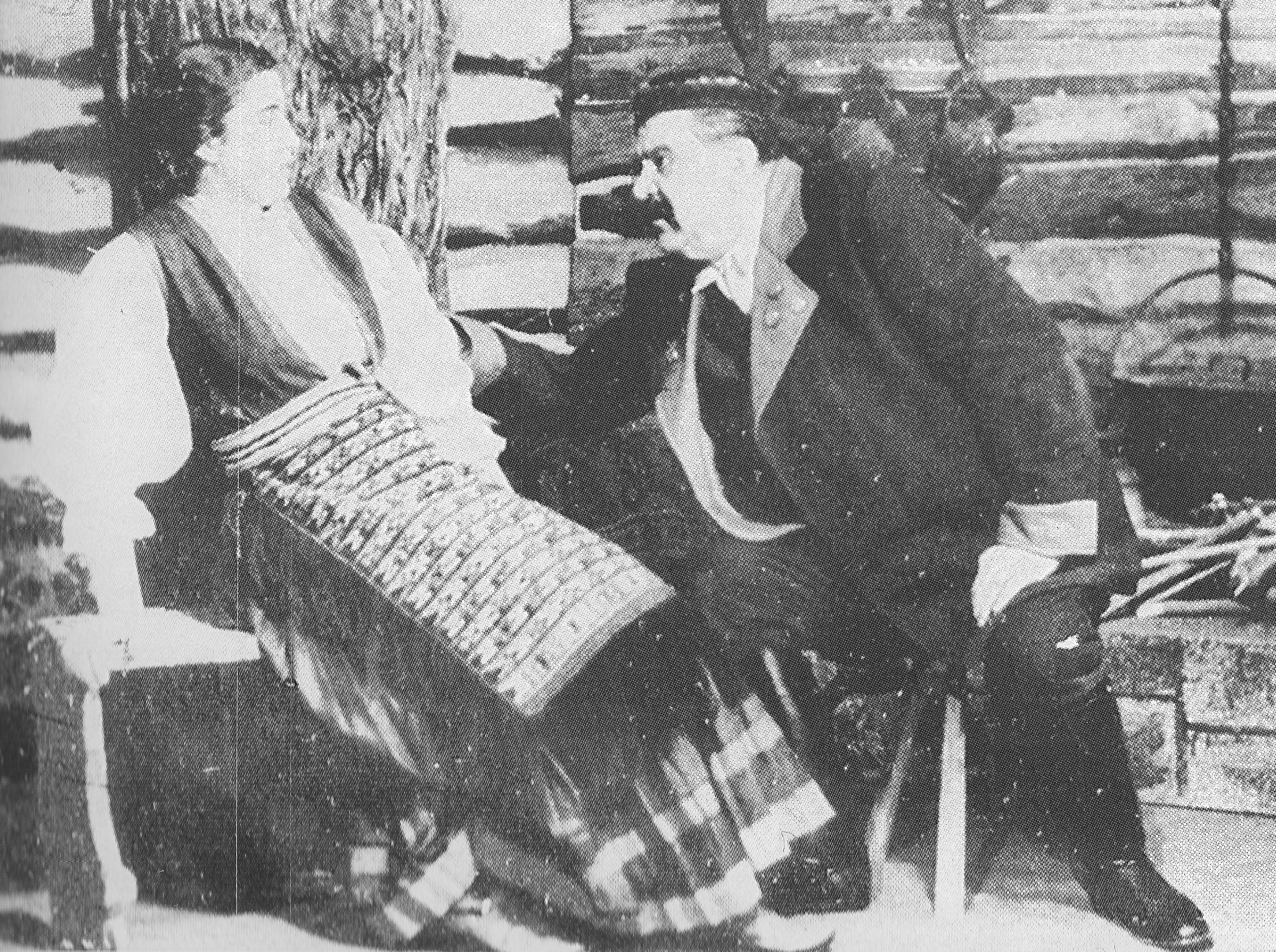 Ognjiste - Anera, Blazic (Theater Sofija)